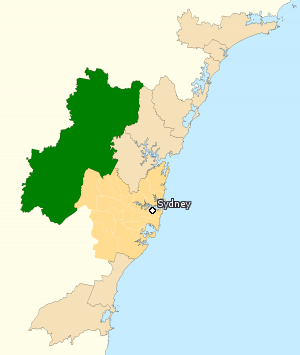 Incorporates or developed using Administrative Boundaries ©PSMA Australia Limited licensed by the Commonwealth of Australia under Creative Commons Attribution 4.0 International licence (CC BY 4.0). Derived from State and Territory Boundaries from the Australian Bureau of Statistics under Creative Commons Attribution 2.5 Australia license (CC BY 2.5 AU)